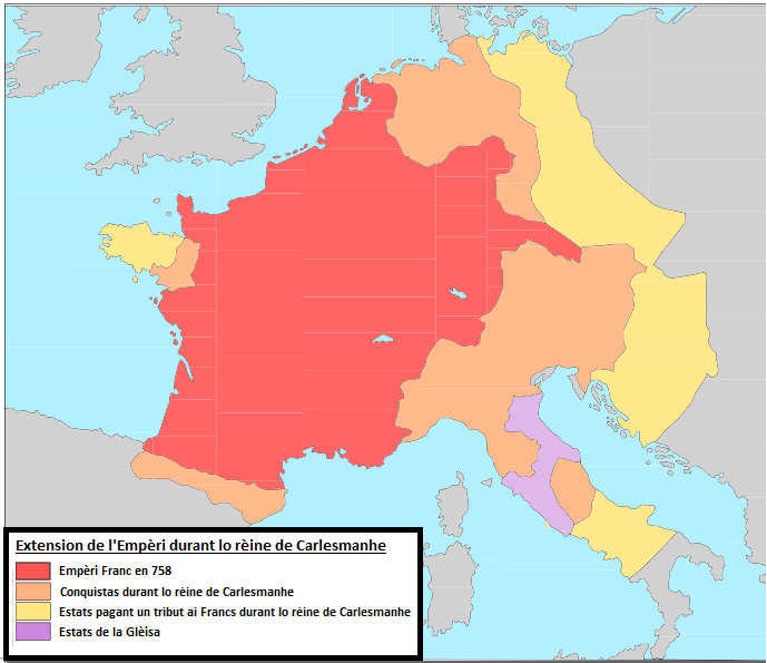 Extension of Carolingian Empire under Charlemagne's rule.